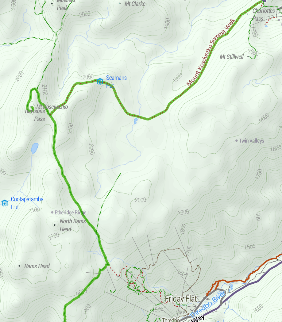 Topographic map of Mt Kosciuszko. Data is OpenStreetMap, cartography by Steve Bennett.